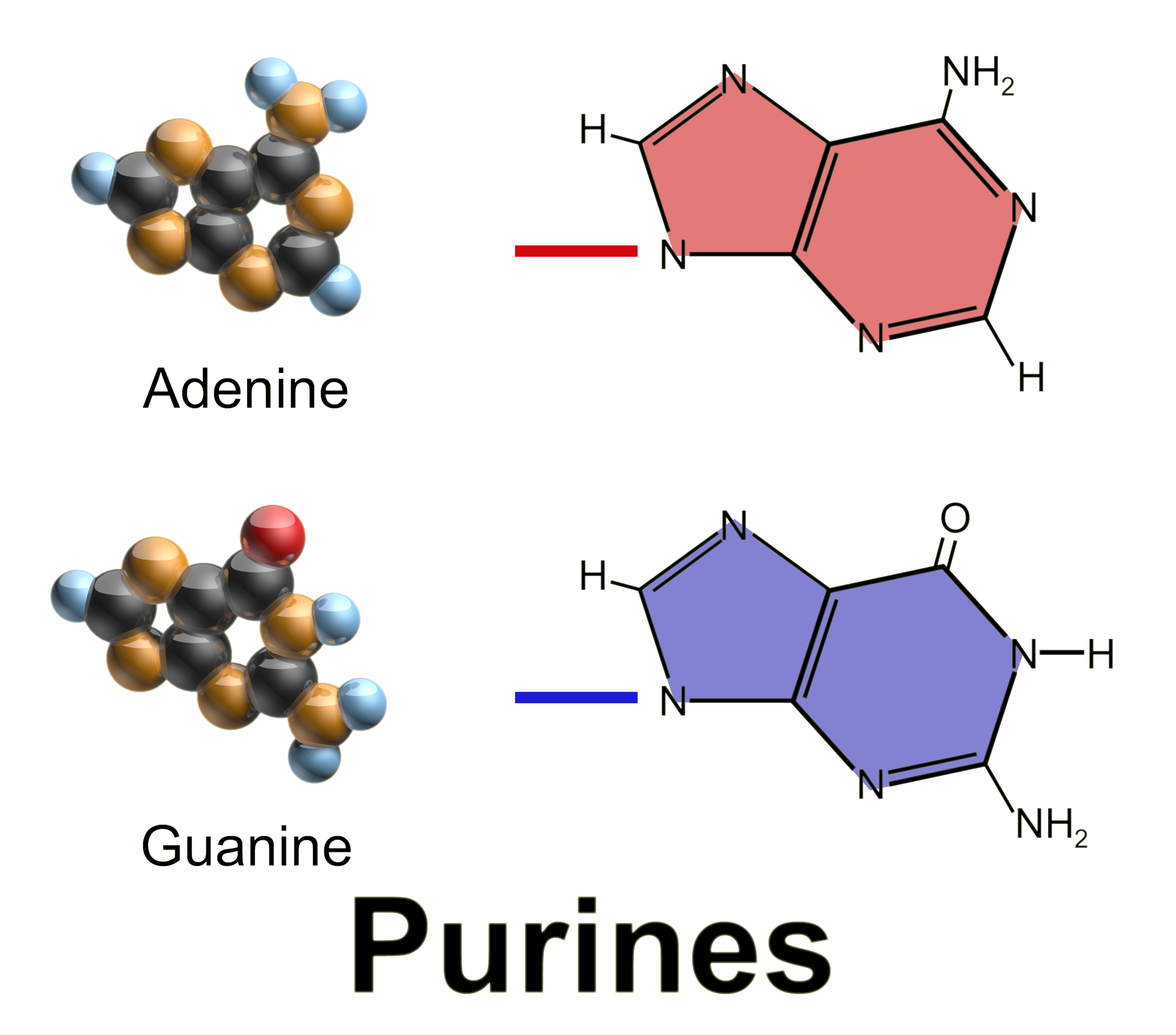 Purines (Adenine and Guanine). See a related animation of this medical topic.